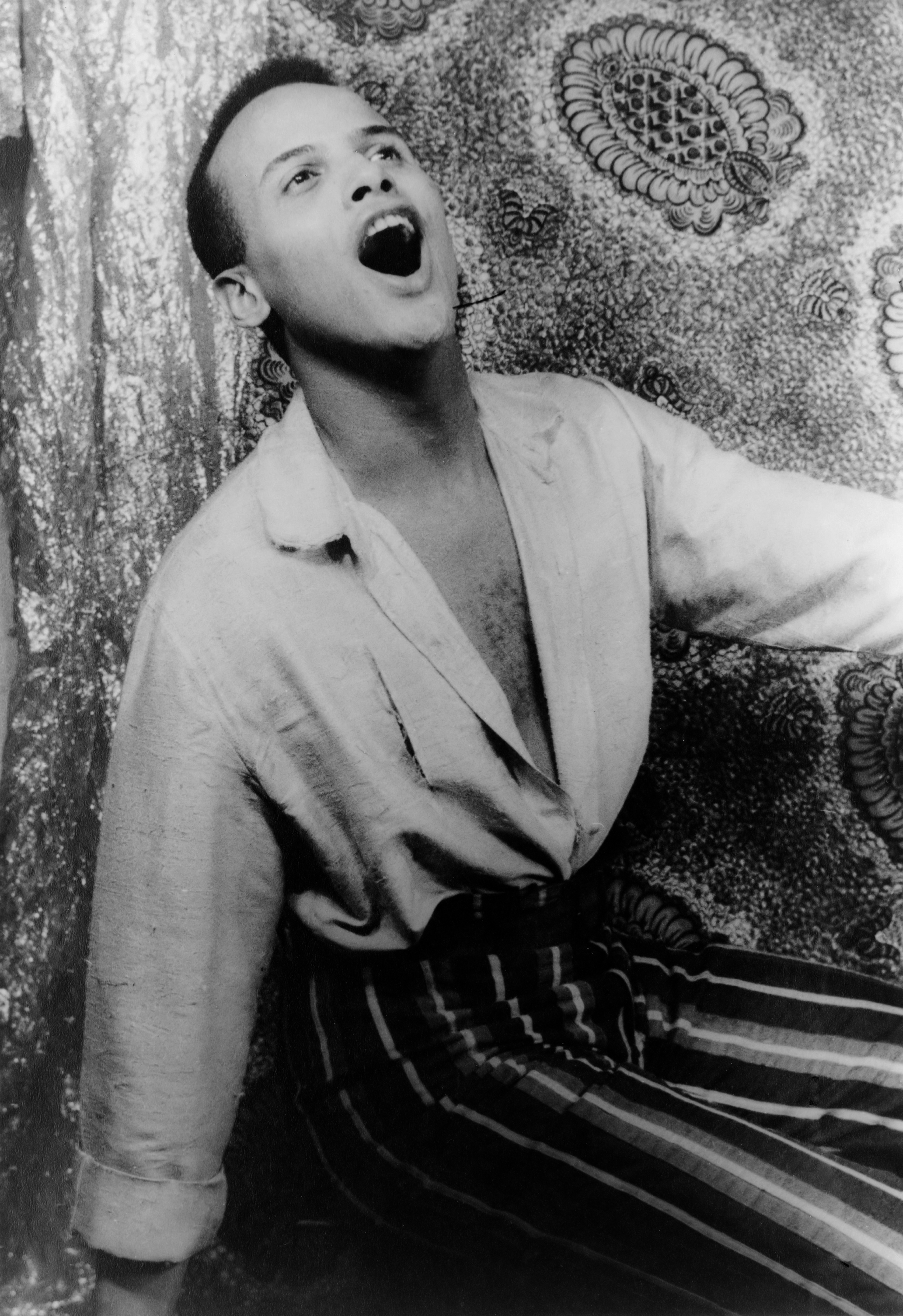 Portrait of Harry Belafonte, singing.